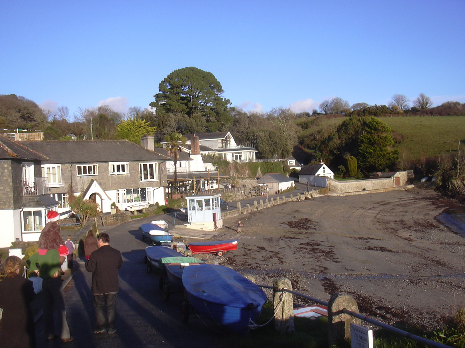 Helford Passage, Cornwall in winter, showing the Ferryboat pub.